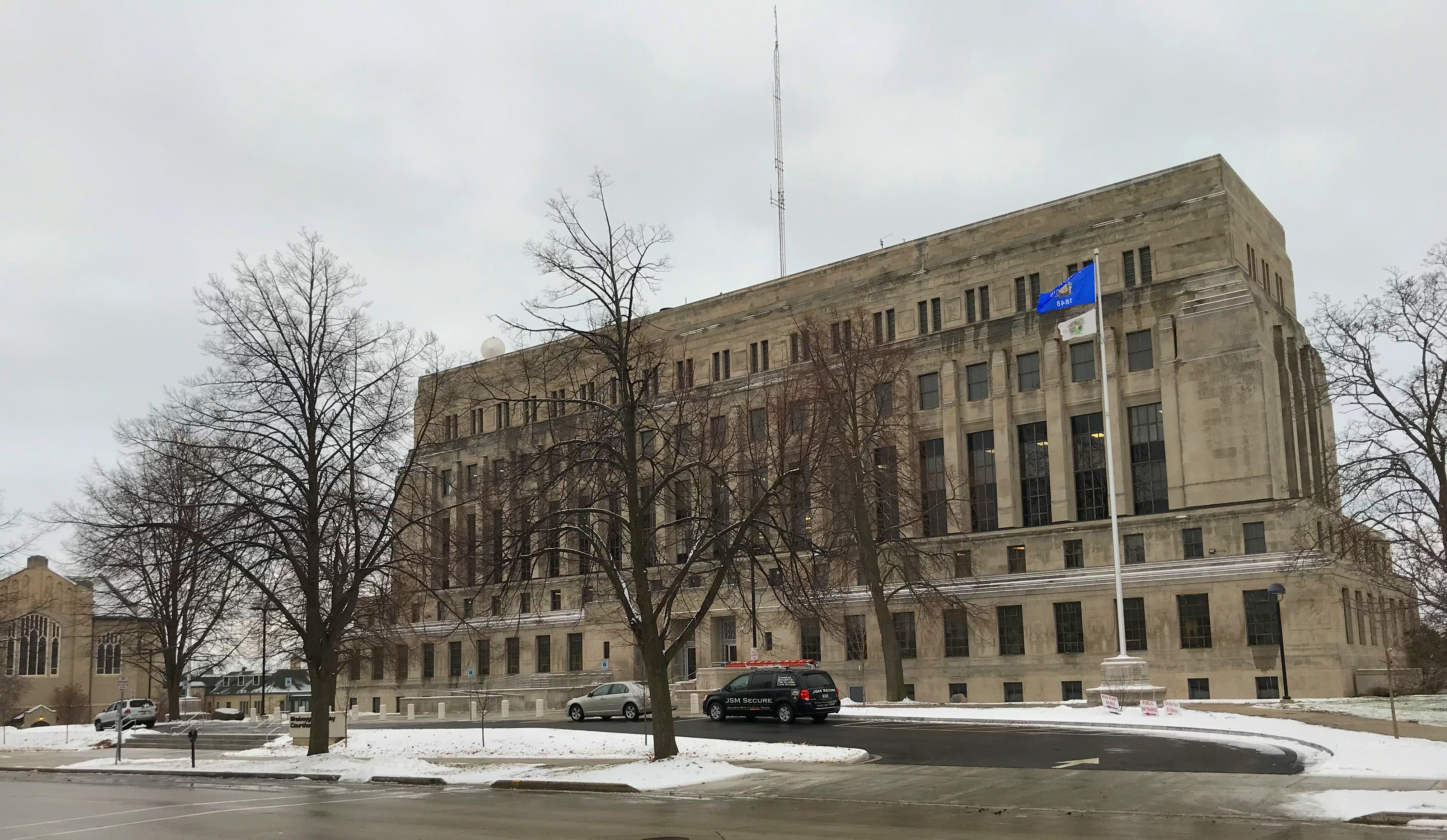 A November 2018 photo of the Sheboygan County Courthouse in Sheboygan, Wisconsin, United States.